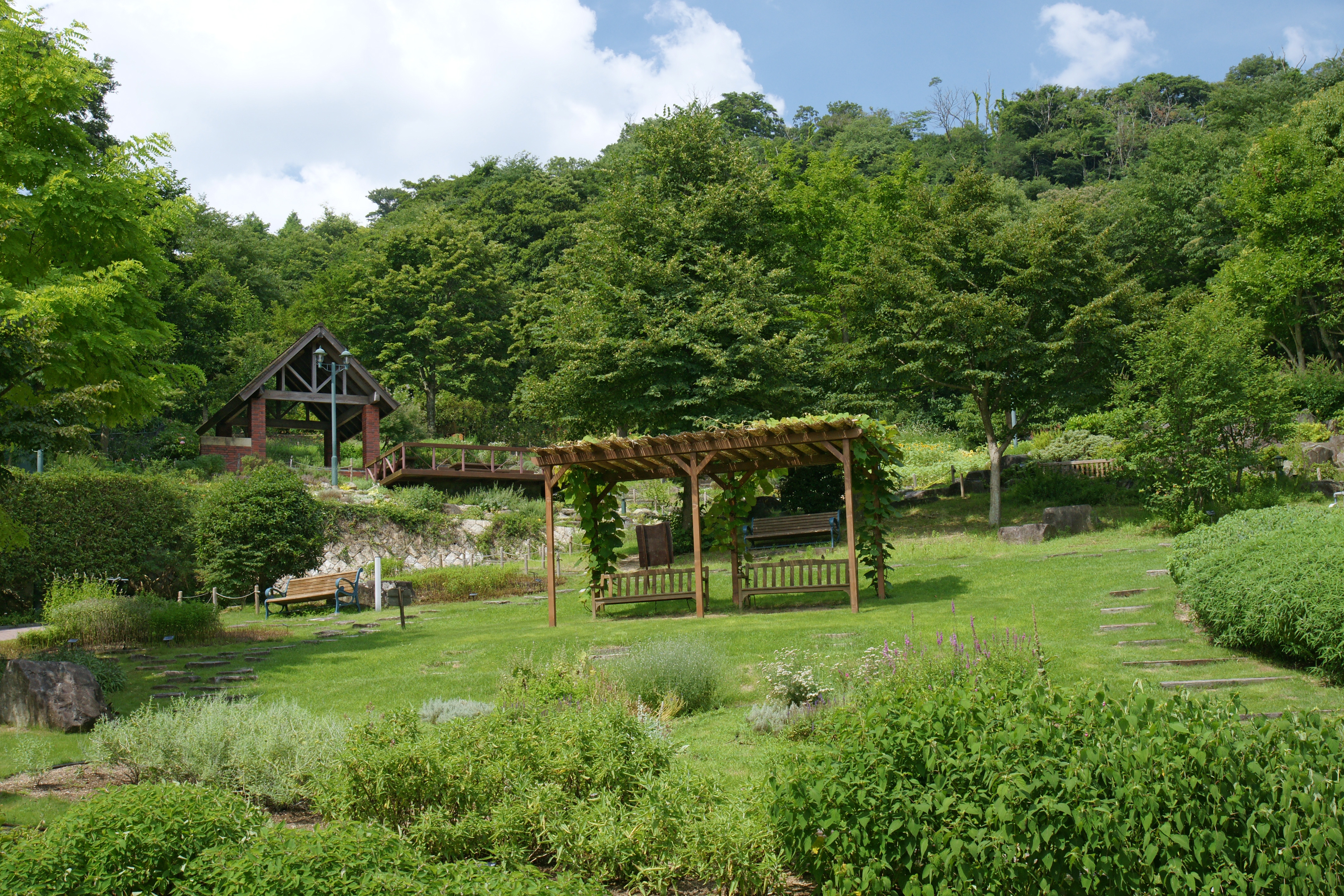 Nunobiki Herb Garden in Kobe, Hyogo prefecture, Japan